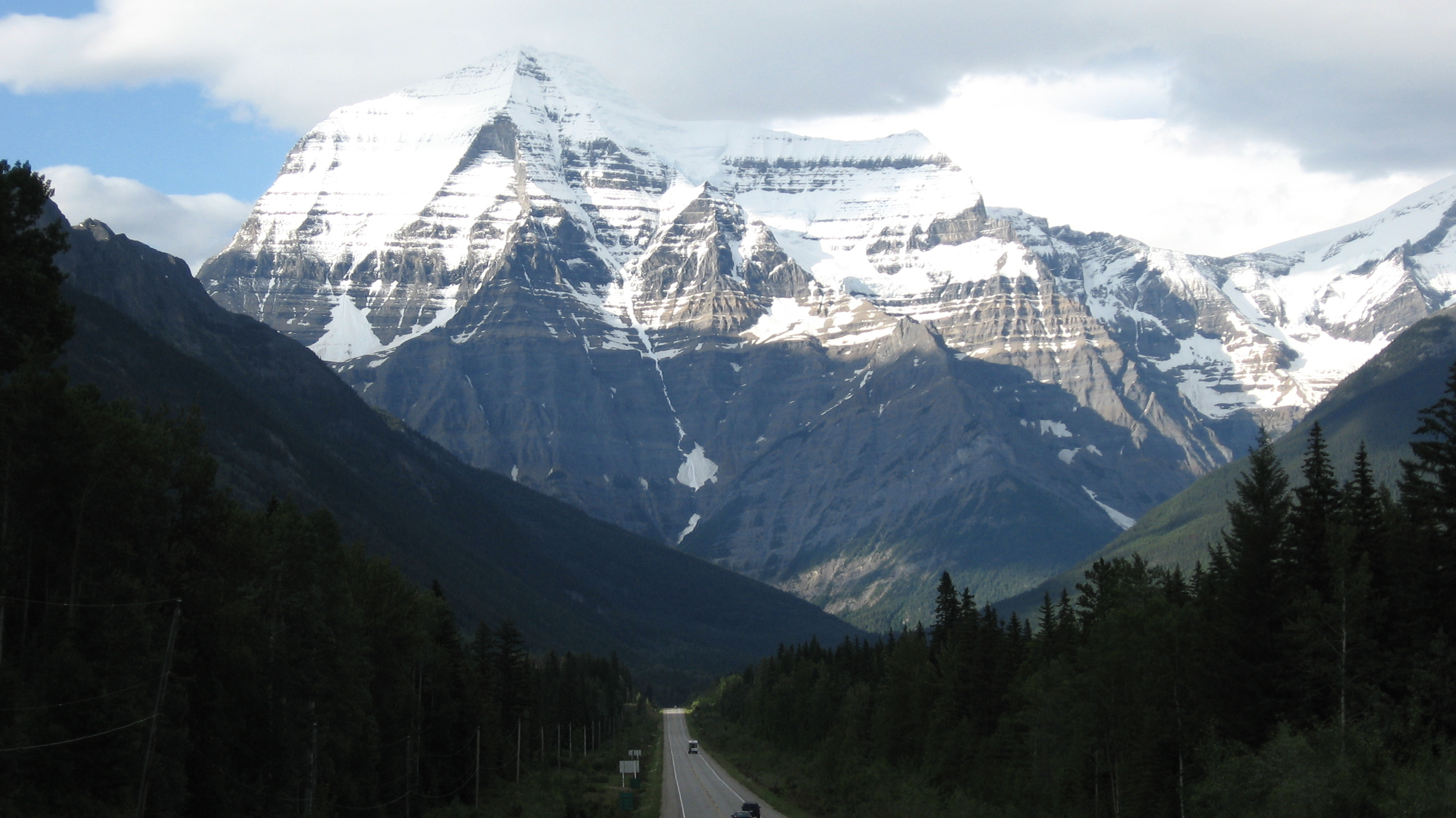 Mount Robson from the Yellowhead Highway (foreground) in Mount Robson Provincial Park, British Columbia, Canada.